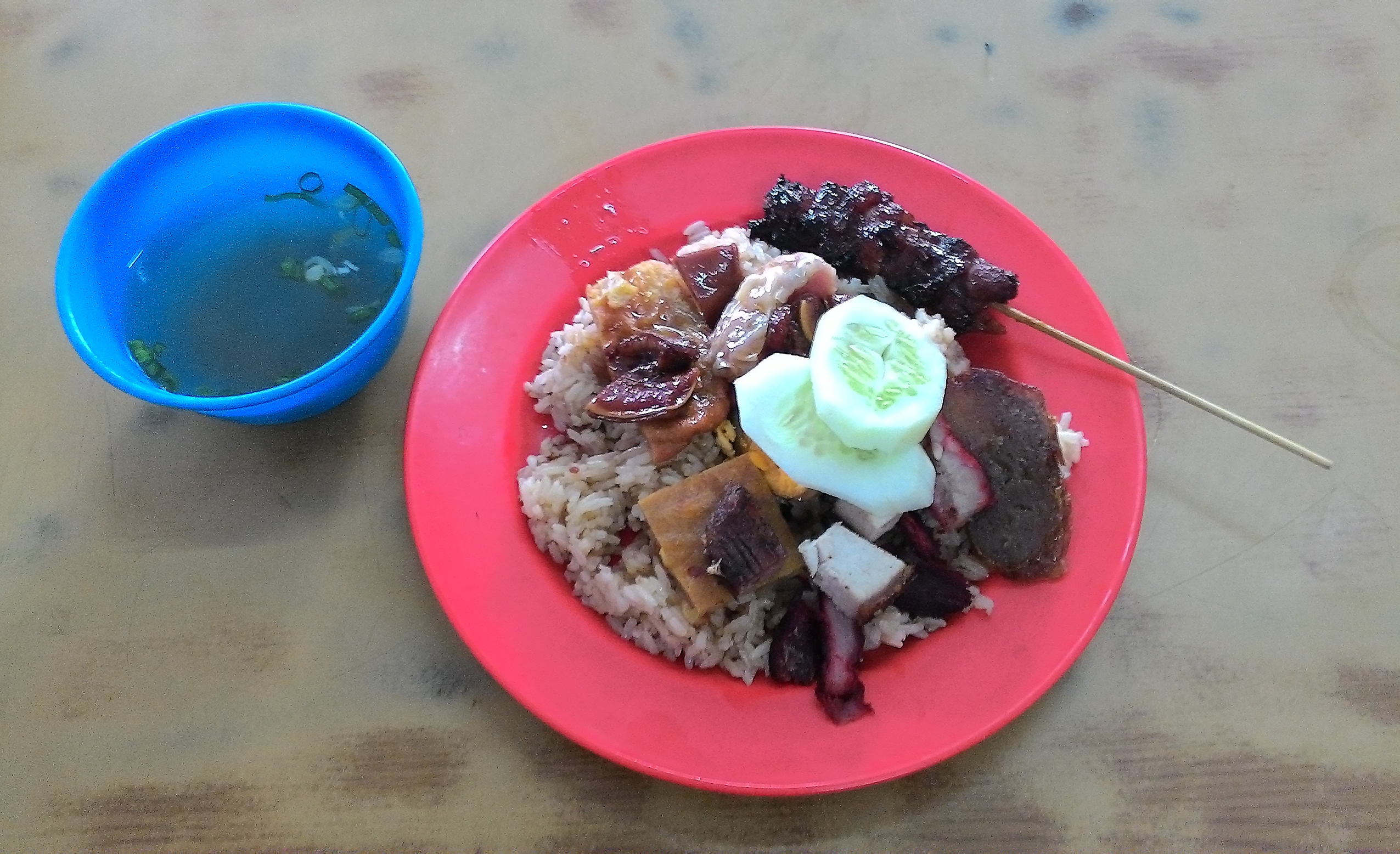 Nasi Campur Tionghoa, Chinese Indonesian dish served in Kenanga Restaurant, Jalan Kramat Raya, Senen, Central Jakarta, Indonesia. It consist of rice surrounded with Chinese barbecues, such as charsiu and samcan (roasted pork belly), pork satay, pork dumplings, pork ear, egg and cucumber with clear broth soup with salted vegetables.